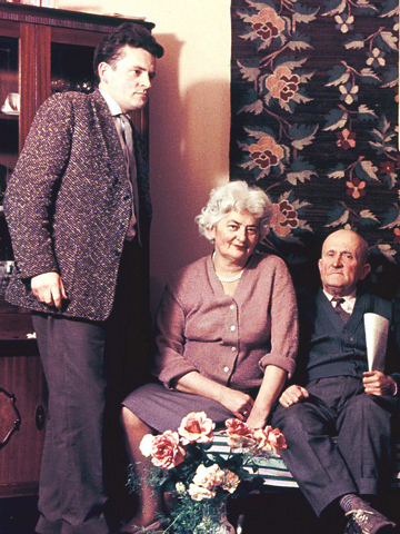 Marek Mietelski (left) with his parents in Krakow in 1961.